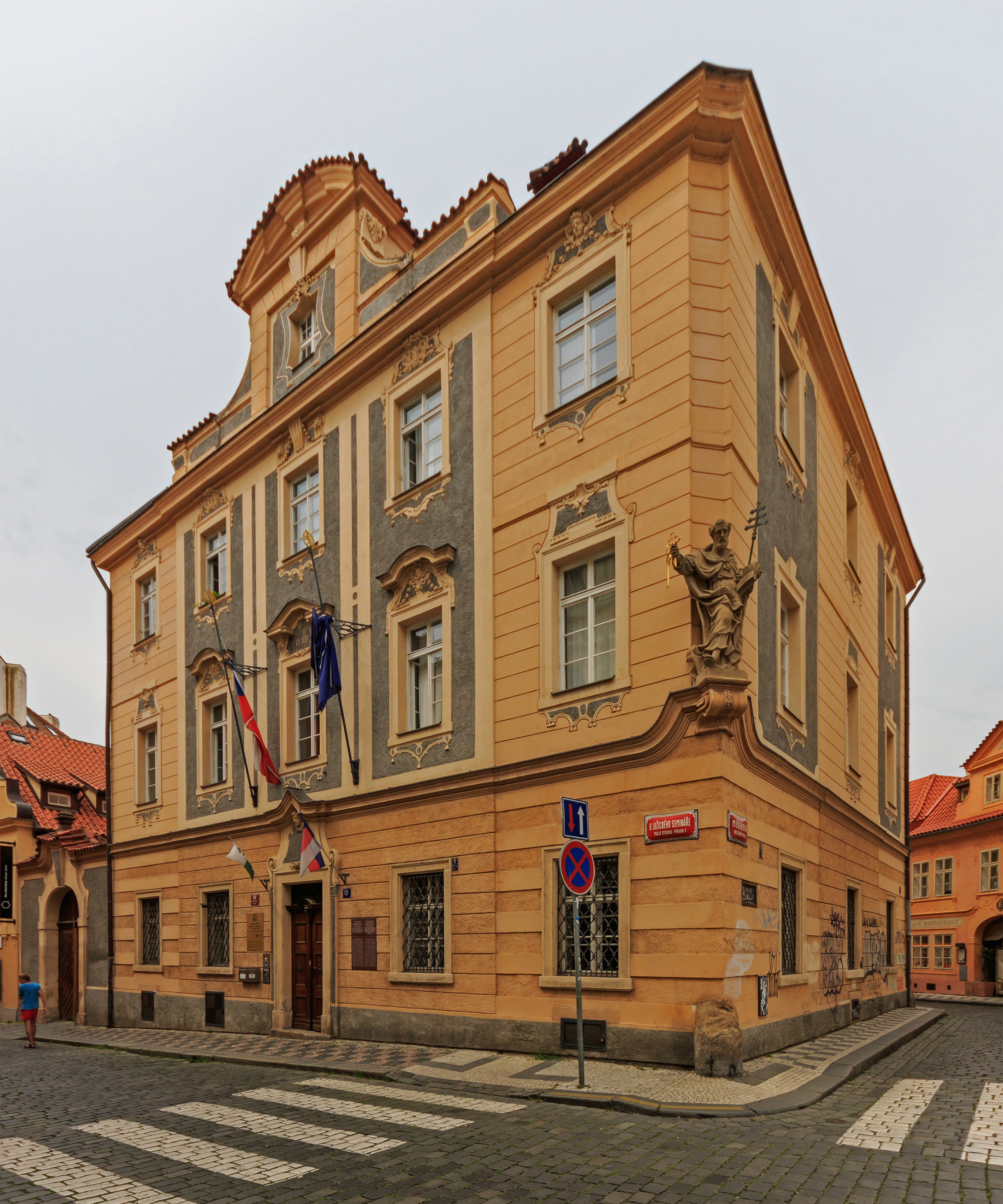 Building of the Lusatian Seminary in Prague (Czech Republic)